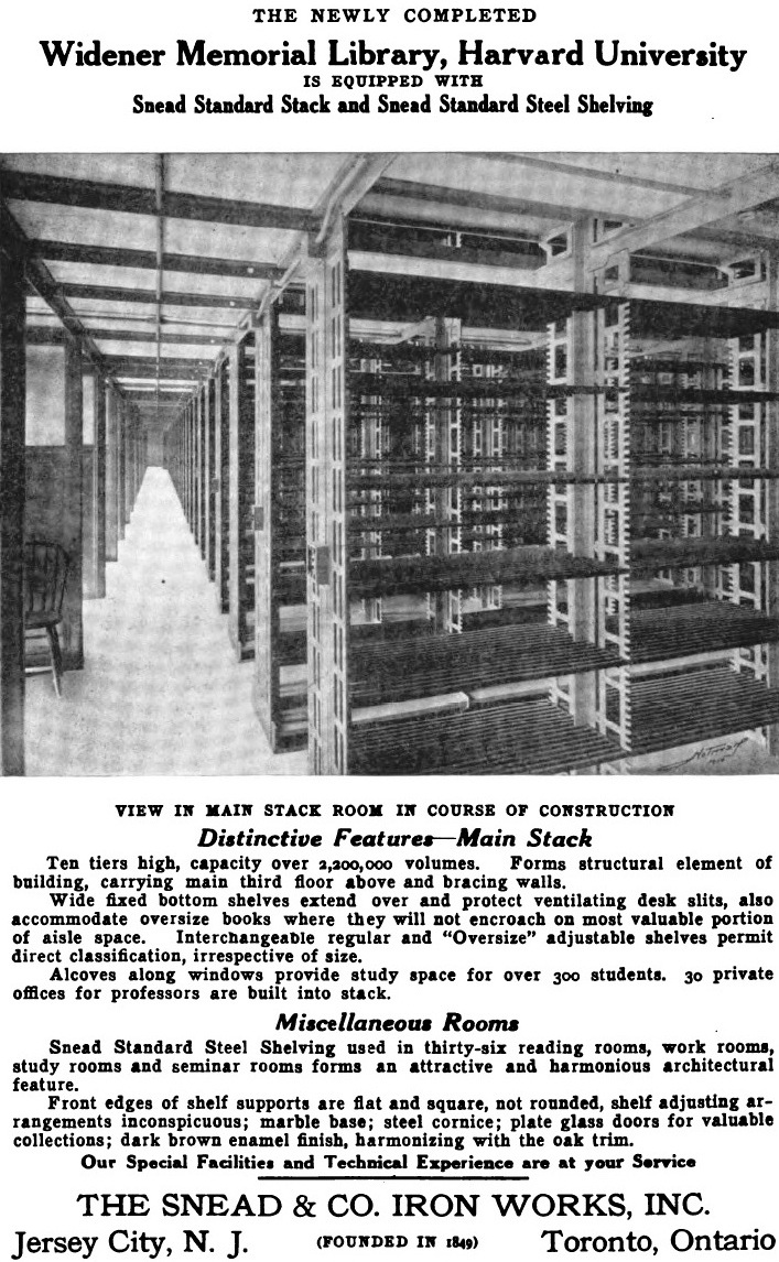 Advertisement for Snead & Co. Iron Works, Inc. re Harry Elkins Widener Memorial Library, Harvard University